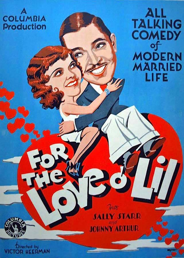 This is a poster for the 1930 American drama film For the Love o' Lil.